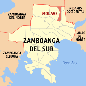 Map of Zamboanga del Sur showing the location of Molave